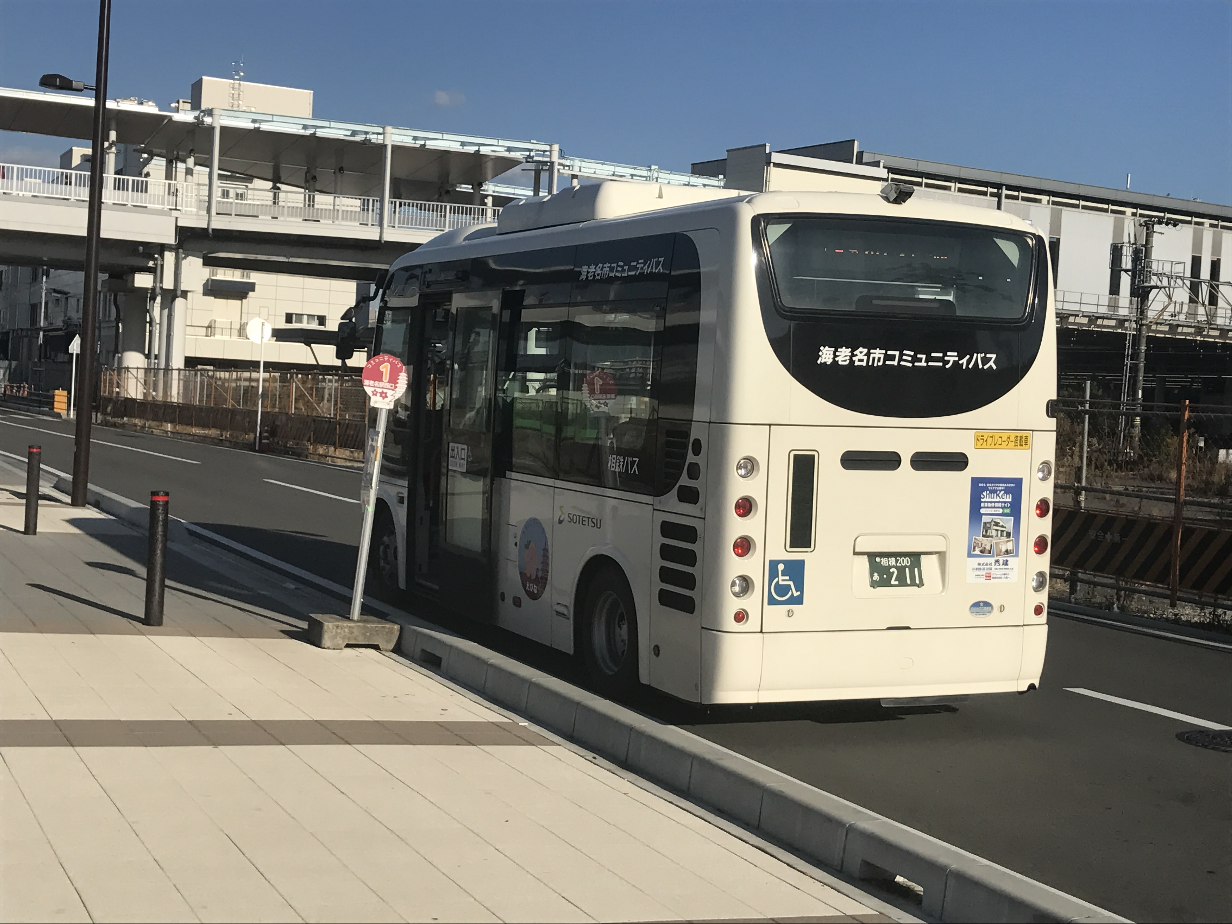 Bus stop at Ebina station West entrance at Odakyu & Sotetu Ebina station (Ebina staion Center area) side in Japan.